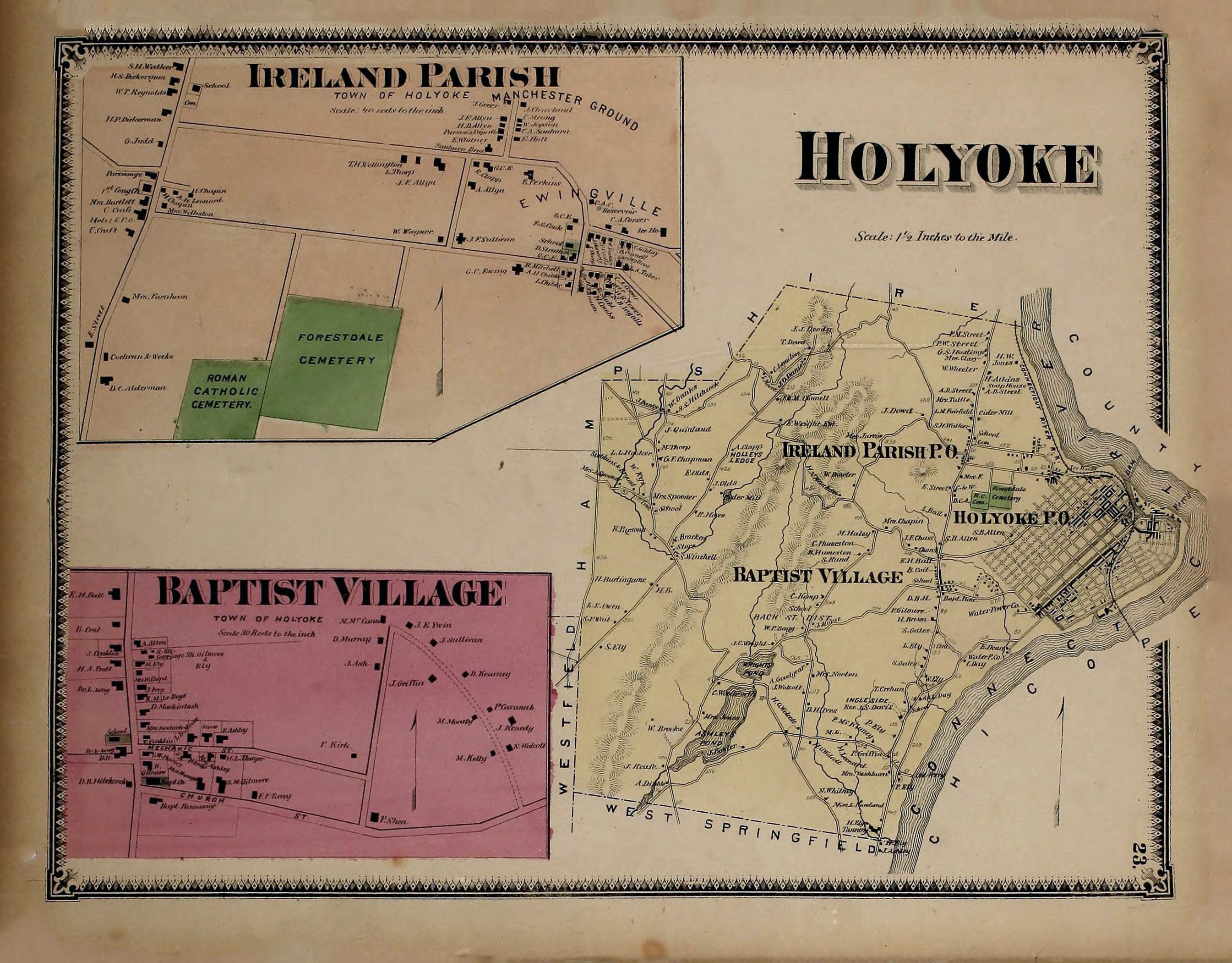 Map of Holyoke, Massachusetts, including the former neighborhoods of Baptist Village, Ireland Parish, and Ewingville, published in a Hampden County atlas by F.W. Beers